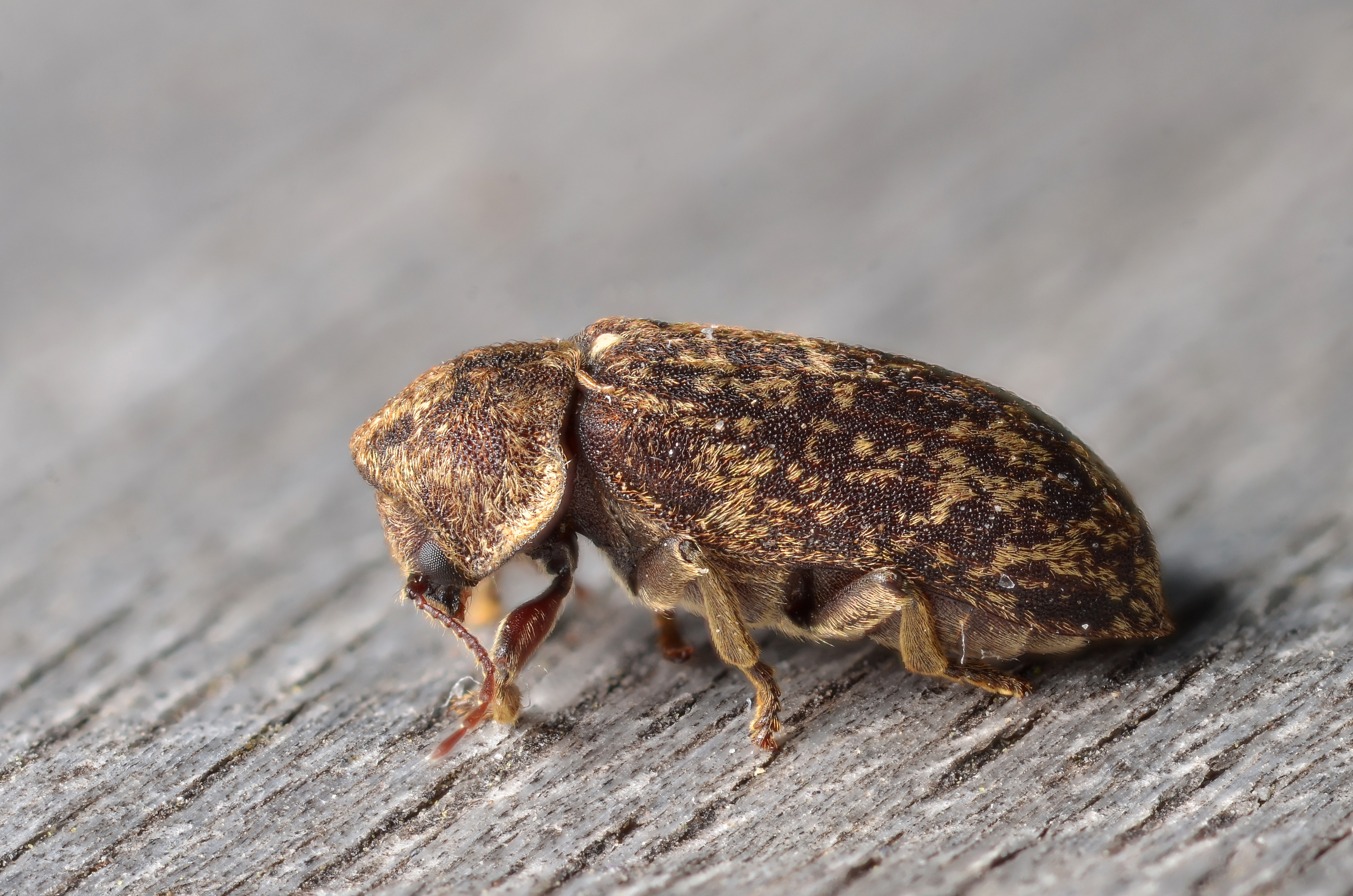 The death watch beetle, Xestobium rufovillosum (Coleoptera, Anobiidae). Location : Hameau de Mons, Assier, Lot, France